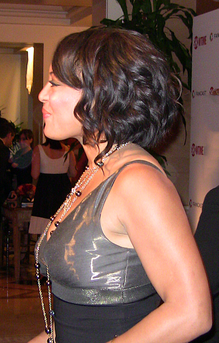 Lauren Vélez at the Showtime Golden Globes Party, The Peninsula Hotel, Beverly Hills, Calif. - Jan. 11, 2009.